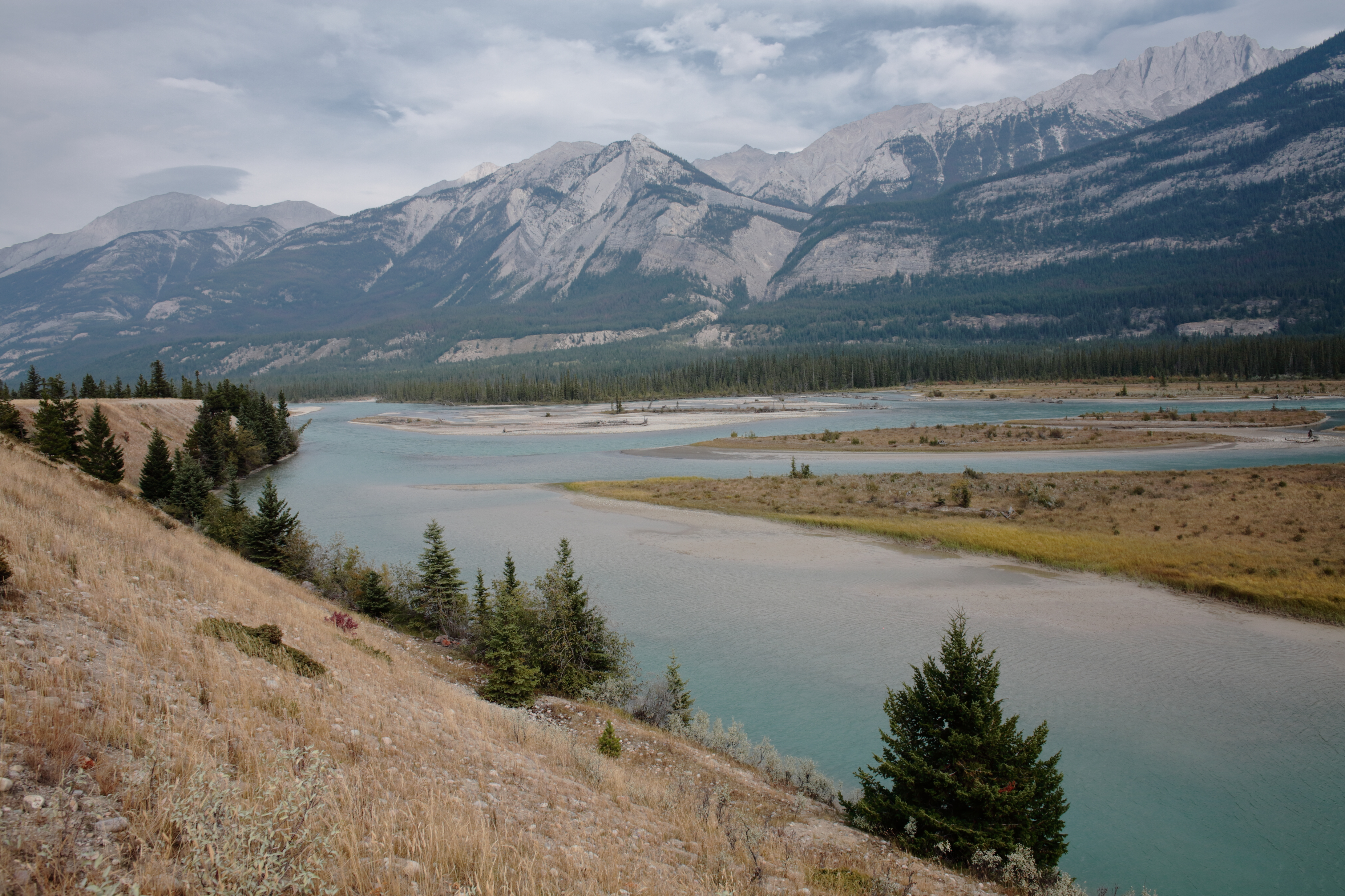 The Athabasca River in Jasper National Park between Jasper and Hinton